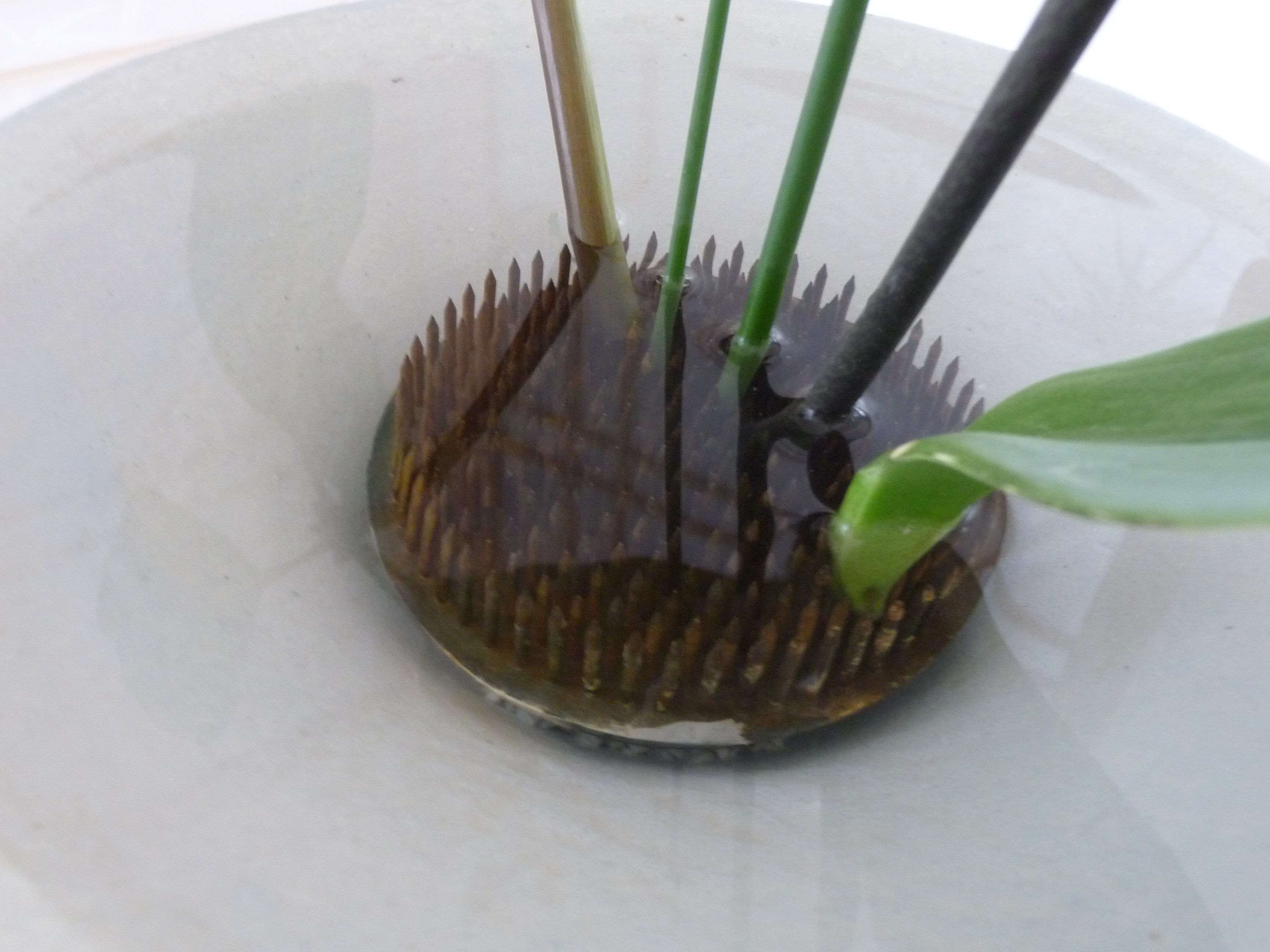 A kenzan with some stalks, underwater in a vessel